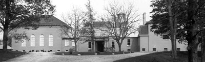 From: Pre-1913 photograph of the facade of Rideau Hall